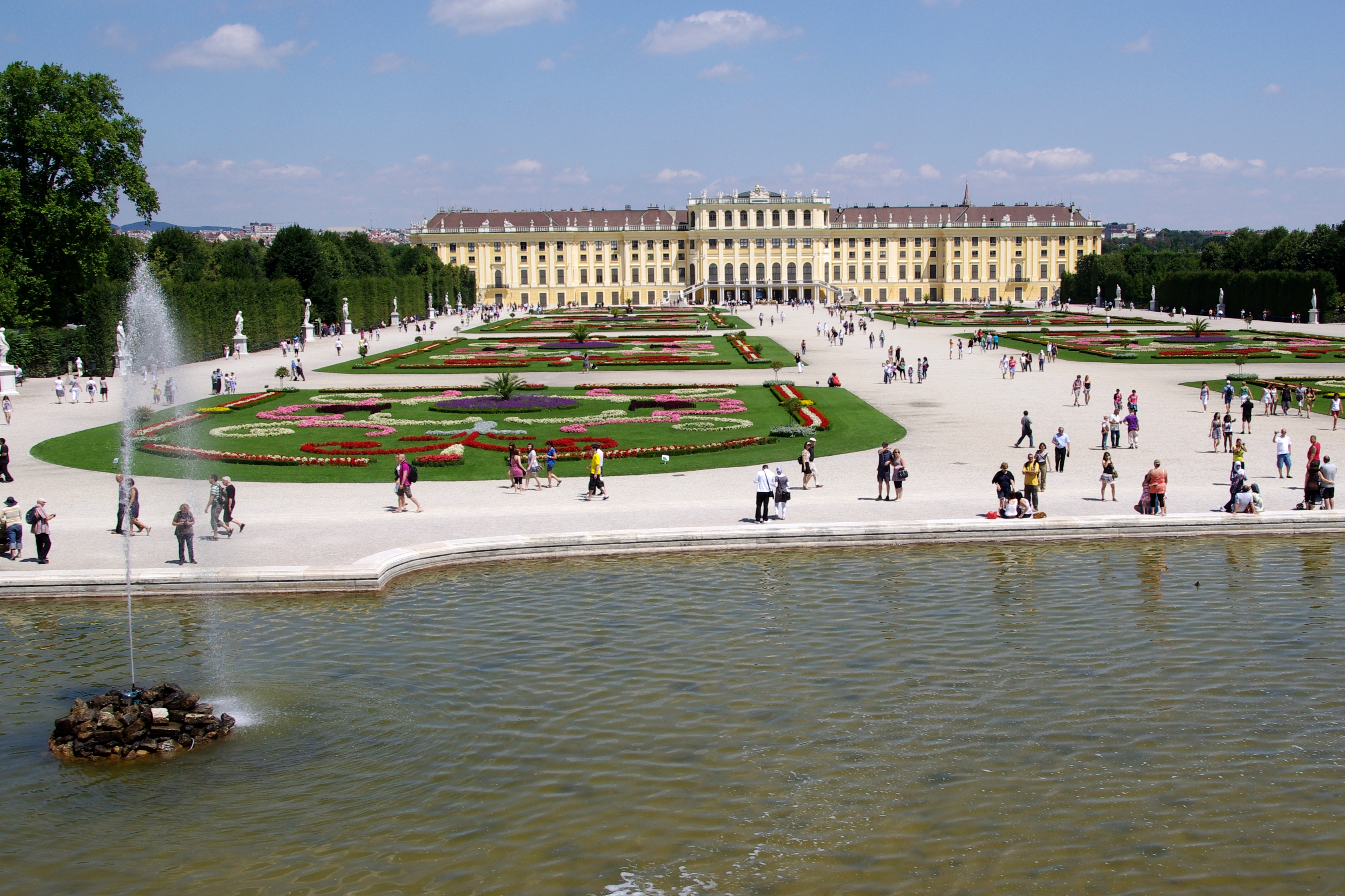 Austria, Vienna, Schönbrunn Palace